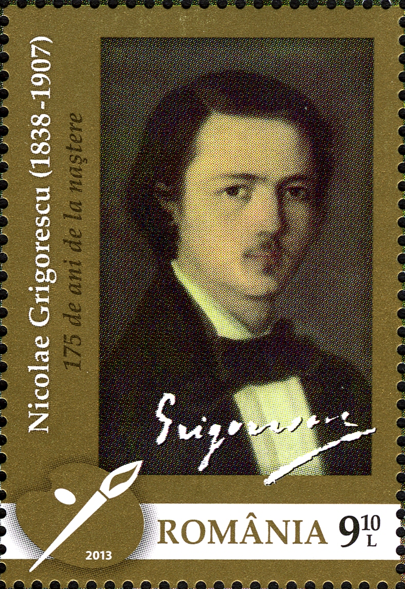 Stamps of Romania, 2013